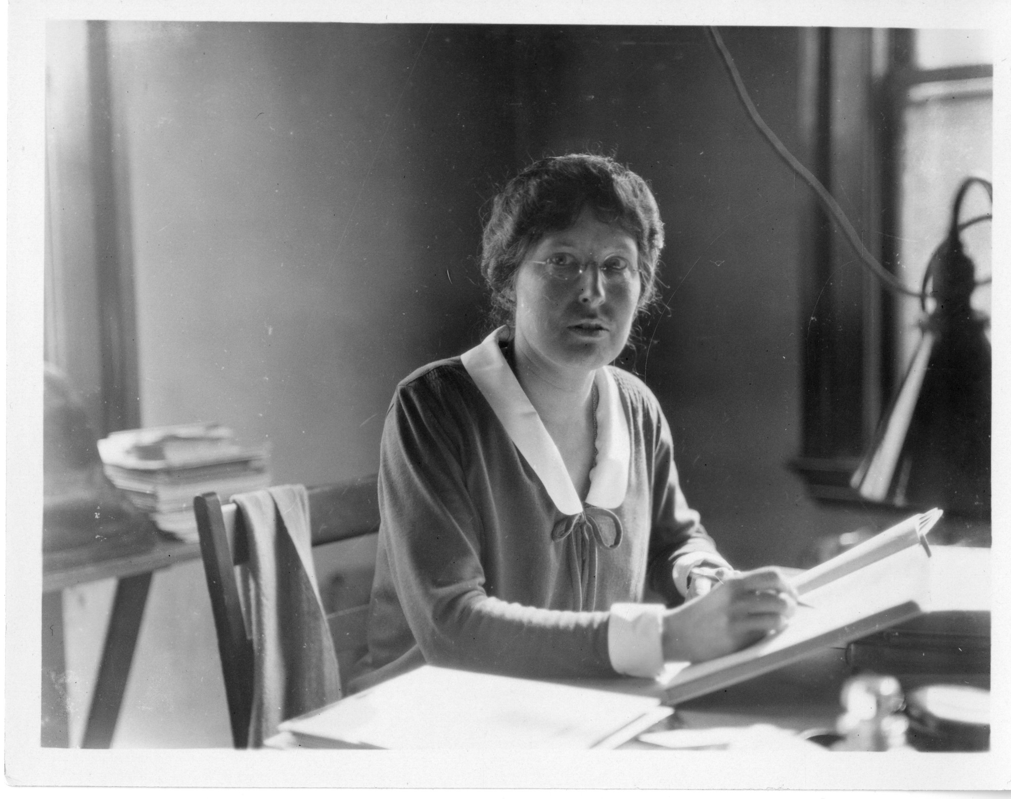 Type: Black-and-White Prints Topic: Astronomy Local number: SIA Acc. 90-105 [SIA-SIA2008-3368] Summary: From 1916 to 1957, Harvard College astronomer Margaret Harwood (1885-1979) directed the Maria Mitchell Observatory on Nantucket Island, and ran its female-founded and female-run nonprofit science education institute; she spent summers on the island doing research and conducting classes. Cite as: Acc. 90-105 - Science Service, Records, 1920s-1970s, Smithsonian Institution Archives Persistent URL:Link to data base record Repository:Smithsonian Institution Archives View more collections from the Smithsonian Institution.